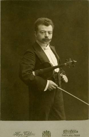 Italian violinist Gaetano Fusella (1876—1973)